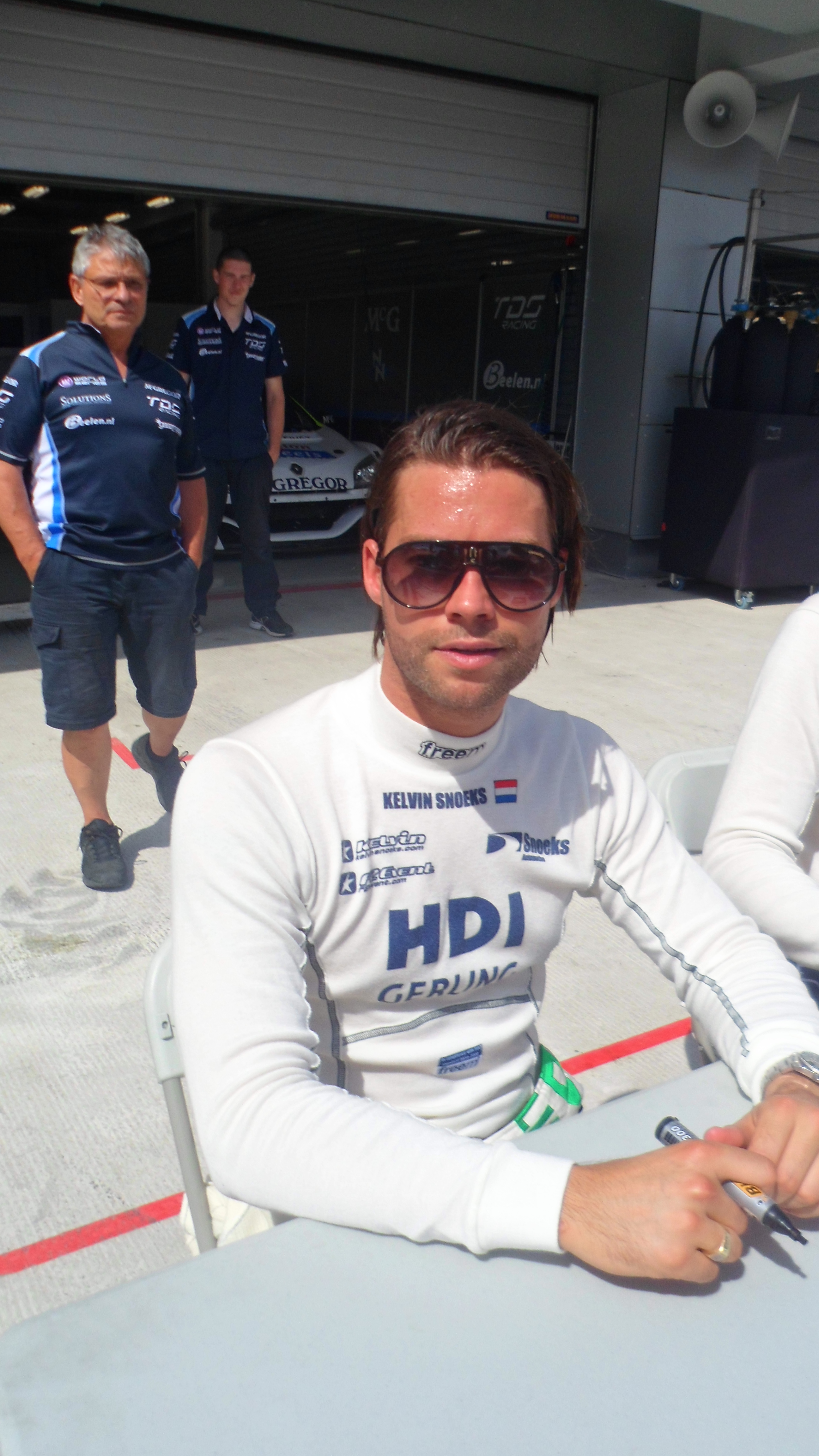 Kelvin Snoeks on autograph session at Moscow Raceway, 14 July 2012